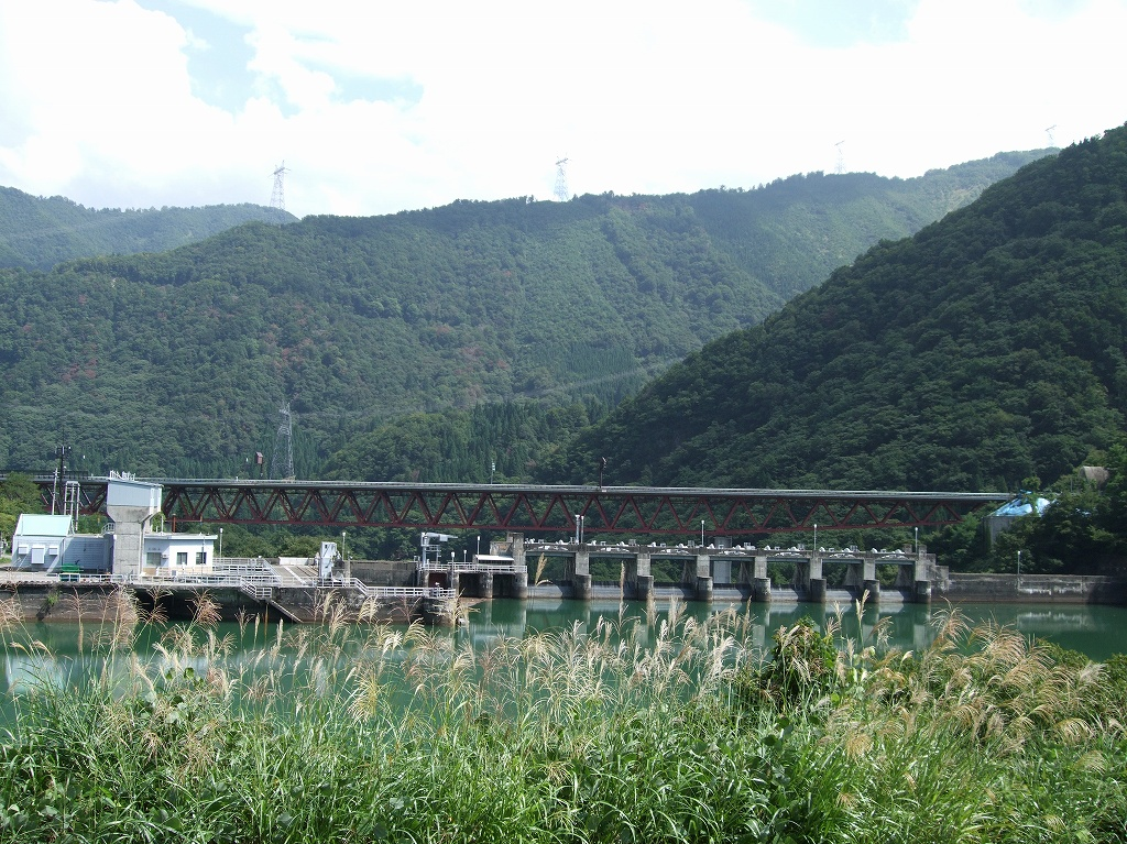 TOKAI-HOKURIKU EXPWY Tsubakihara Bridge and Tshubakihara dam.